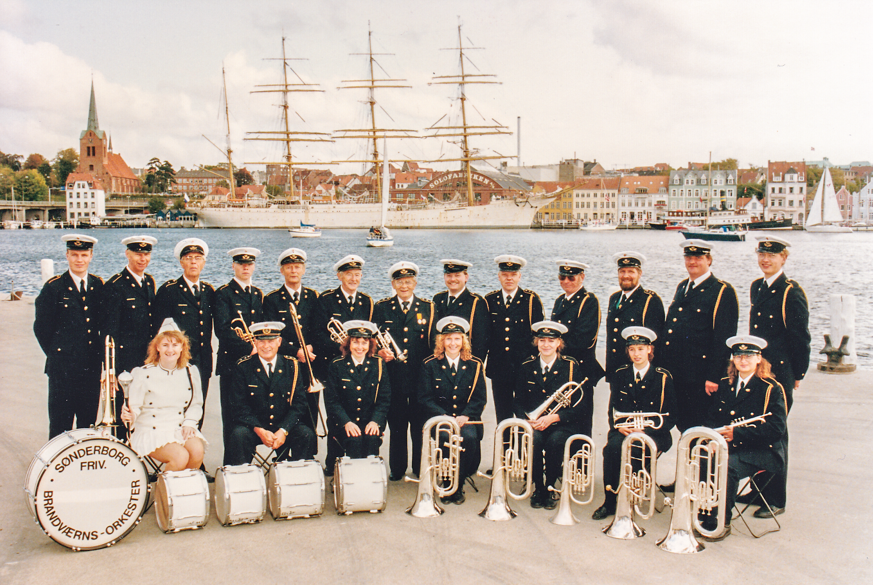 Band of the volunteer Fire Brigade Sonderborg, Denmark. 1992.